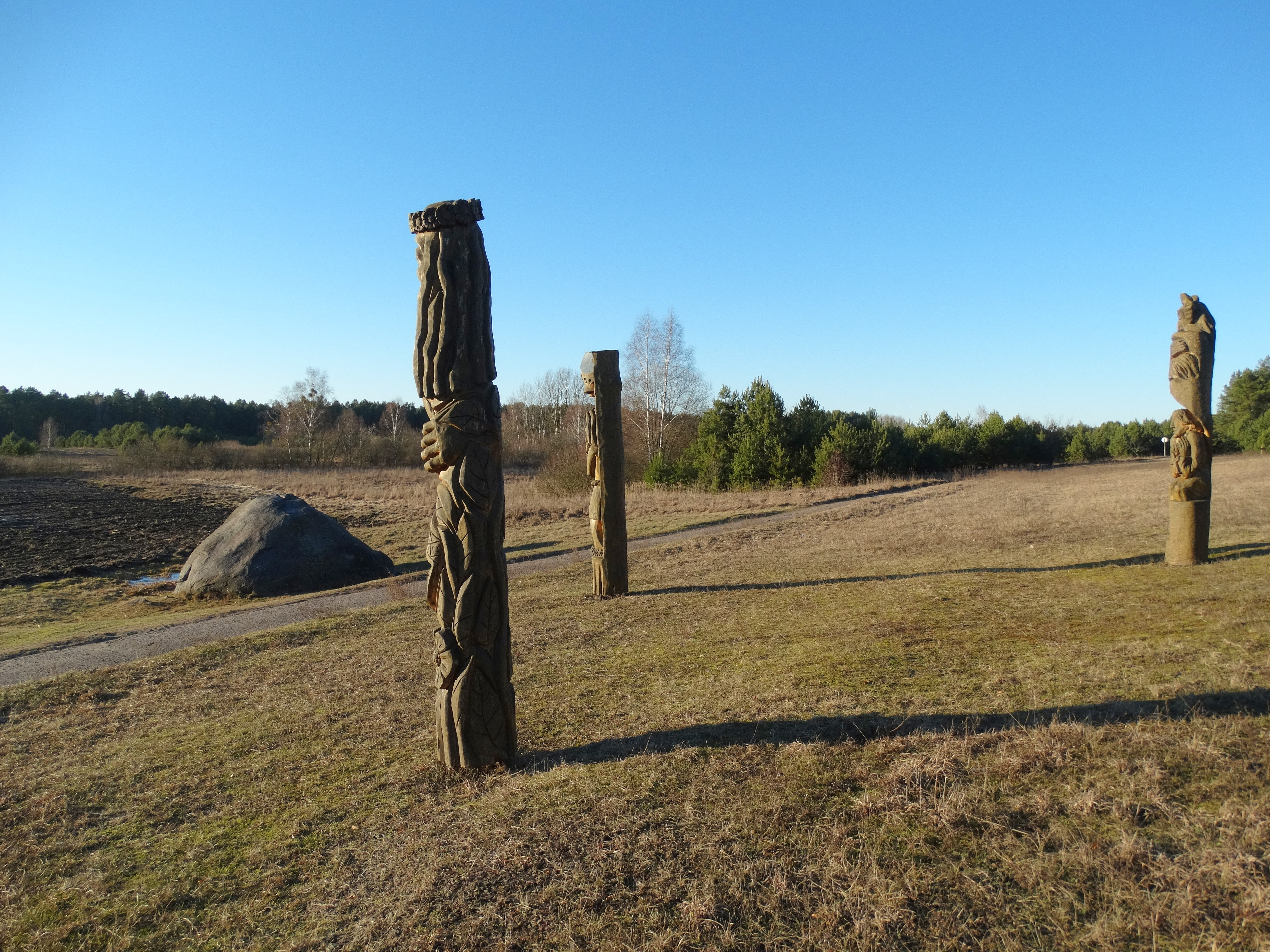 Devil's stone, Švendubrė, Druskininkai Municipality, Lithuania